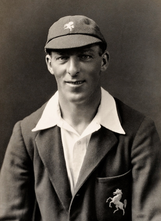 Kent cricketer Charlie Wright, circa 1929.